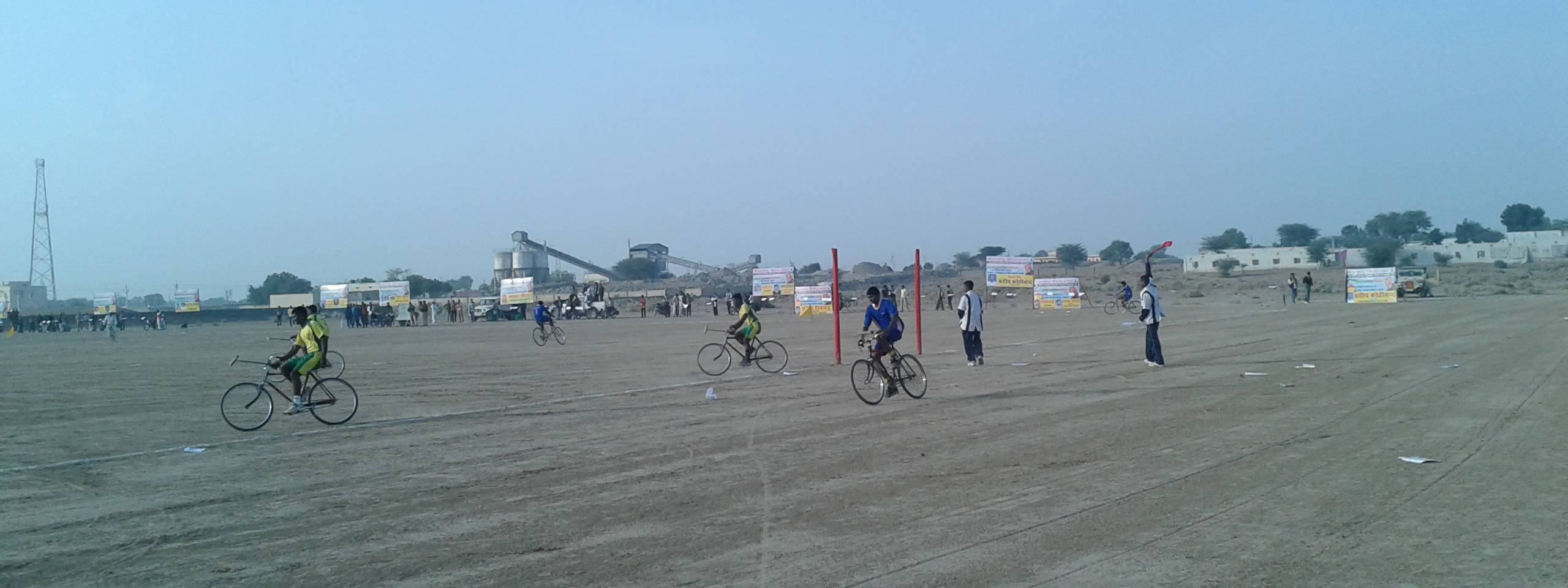 This photo is from a Cycle Polo match held in Rawla Mandi on 16 dec. 2012 .National Cycle Polo Tournament of India 2012 was held in Rawla Mandi and Gharsana,Rajasthan.